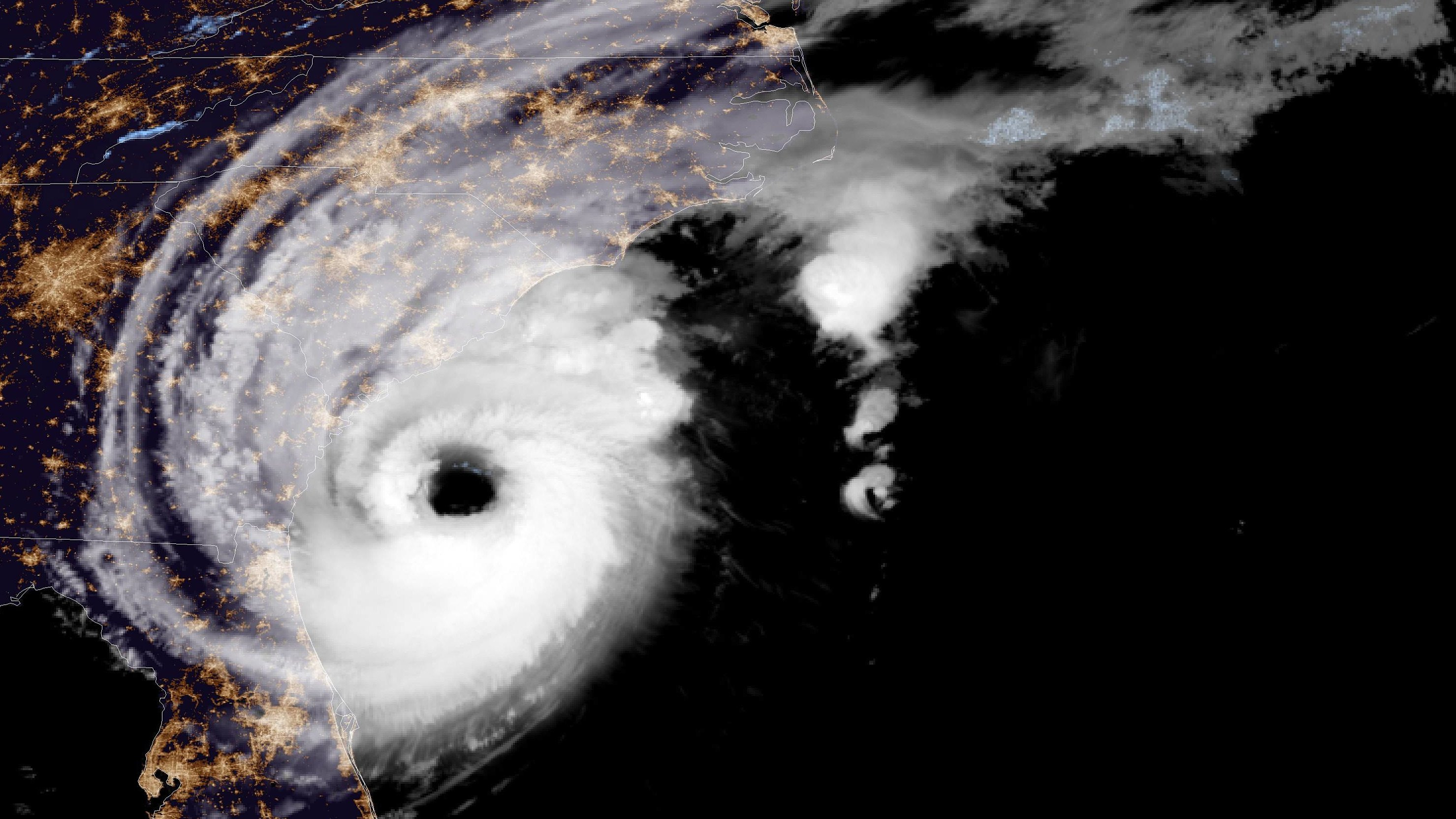 Night time satellite image of Hurricane Dorian paralleling to the Georgian coast on September 4, 2019